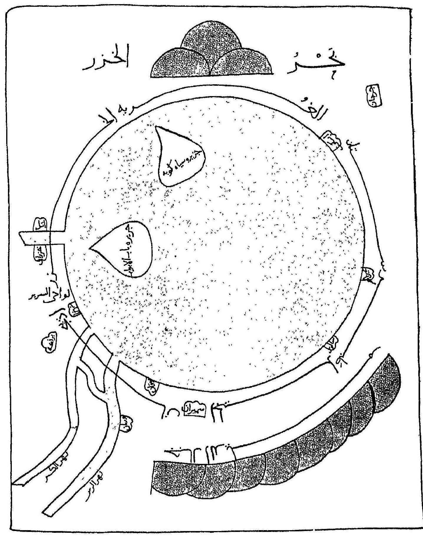 The Caspian sea and Azerbaijan are positioned on the right side of this 10th century map. Original map can be found in Ṣūrat al-’Arḍ (صورة الارض; "The face of the Earth") by Ibn Hawqal (977), Beirut, page 419